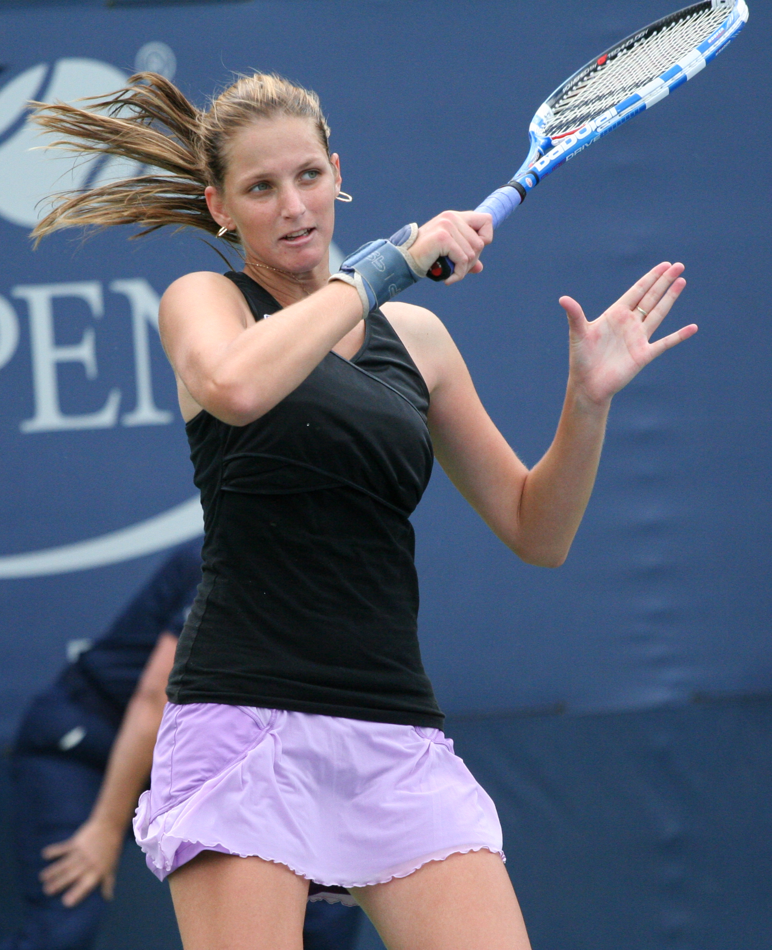 U.S. Open Juniors Sept. 9, 2010